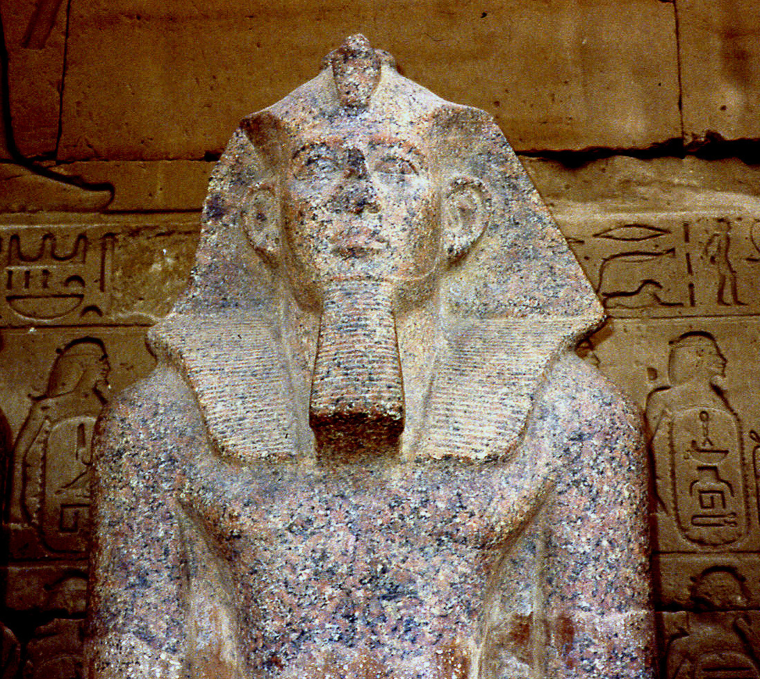 Statue of a king from the Temple of Amun, Karnak, Pylon VII. Most possibly, king Sobekhotep IV